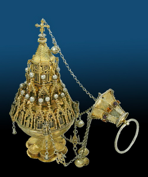 Religious object from the Putna Monastery, Romania